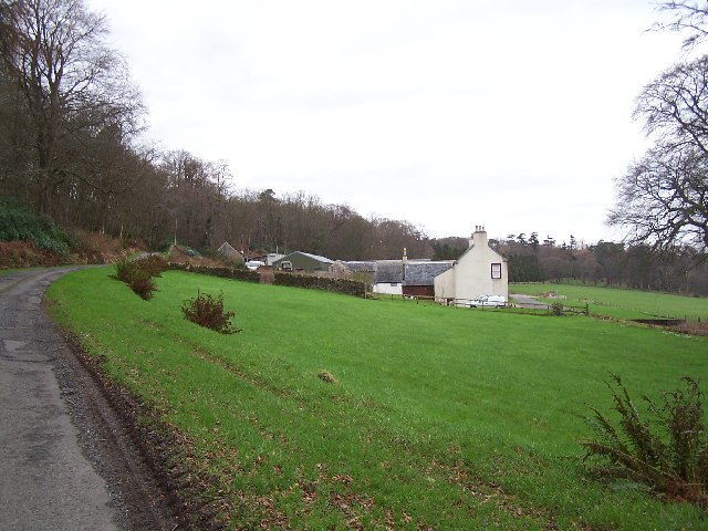 Bute, Kerrylamont Farm.